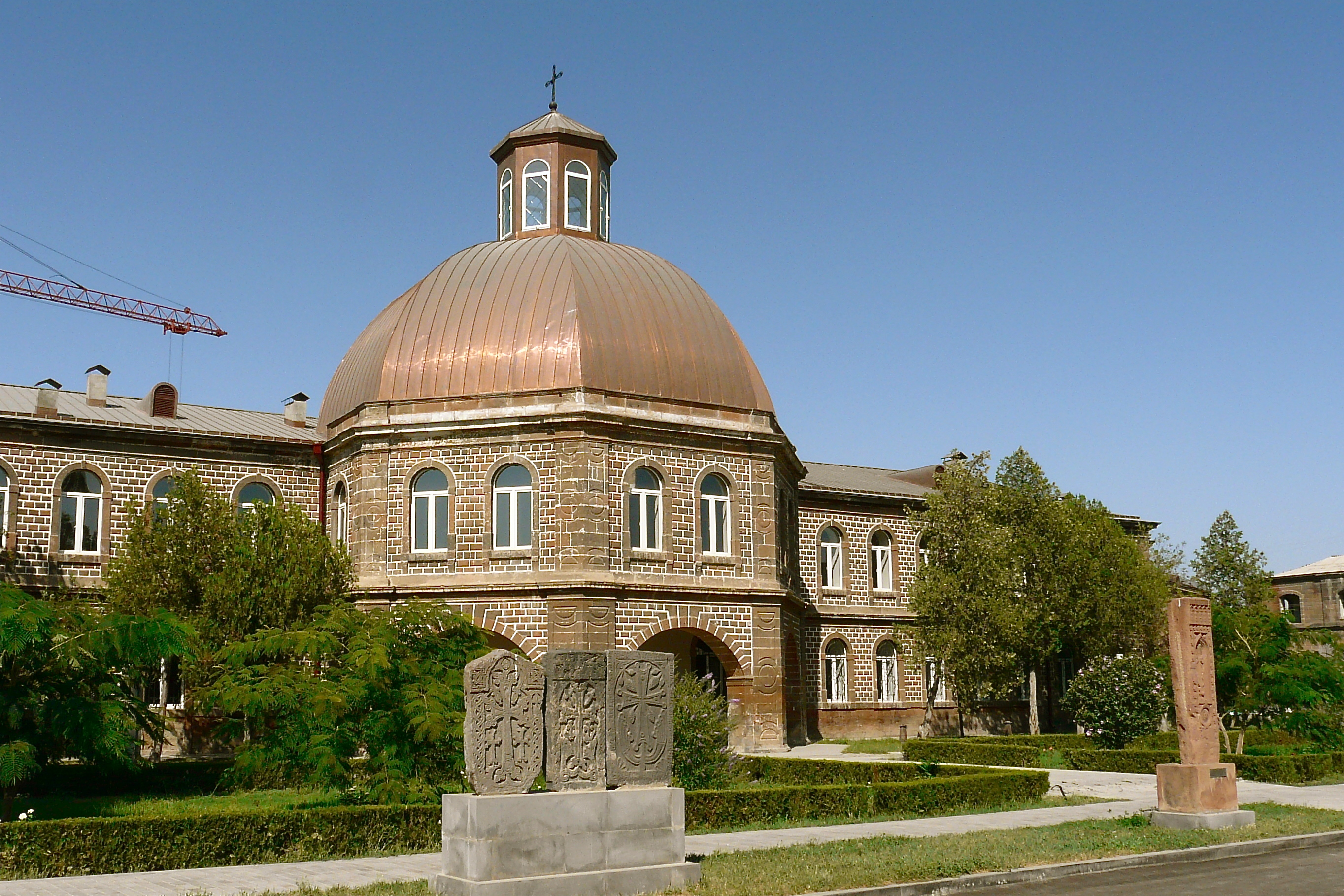 Gevorgian Seminary, Etchmiadzin, Armenia.